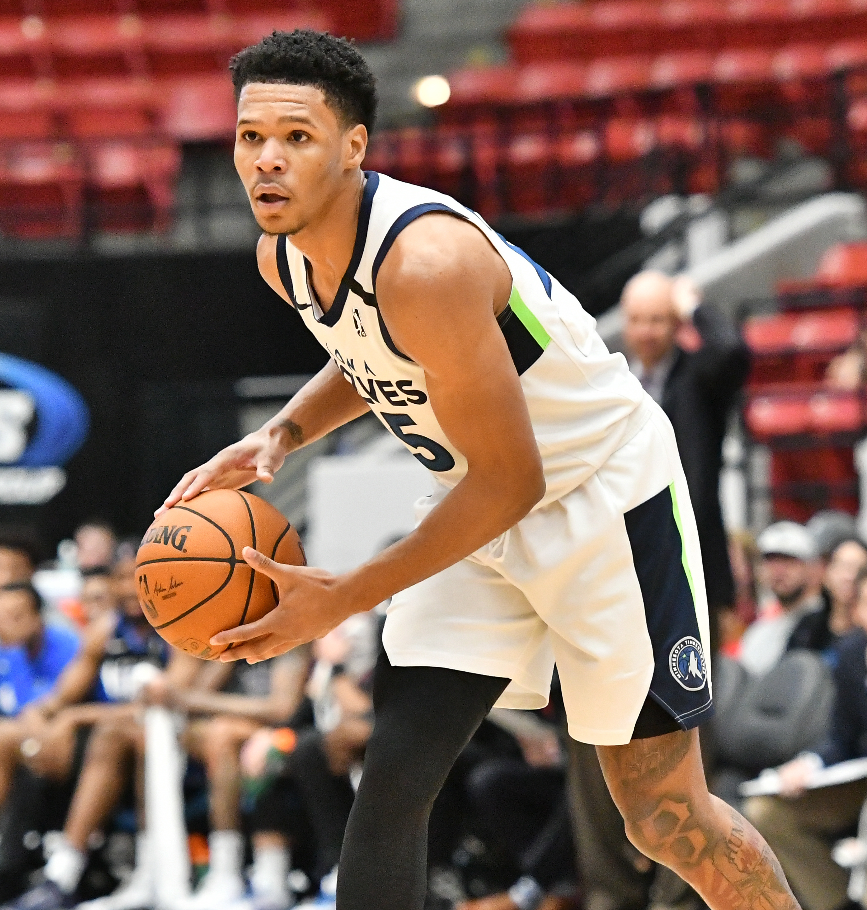 Trevon Duval. Lakeland Magic vs Iowa Wolves. RP Funding Center. Lakeland, Fla. Jan. 18, 2020. (Photo by Tom Hagerty.)